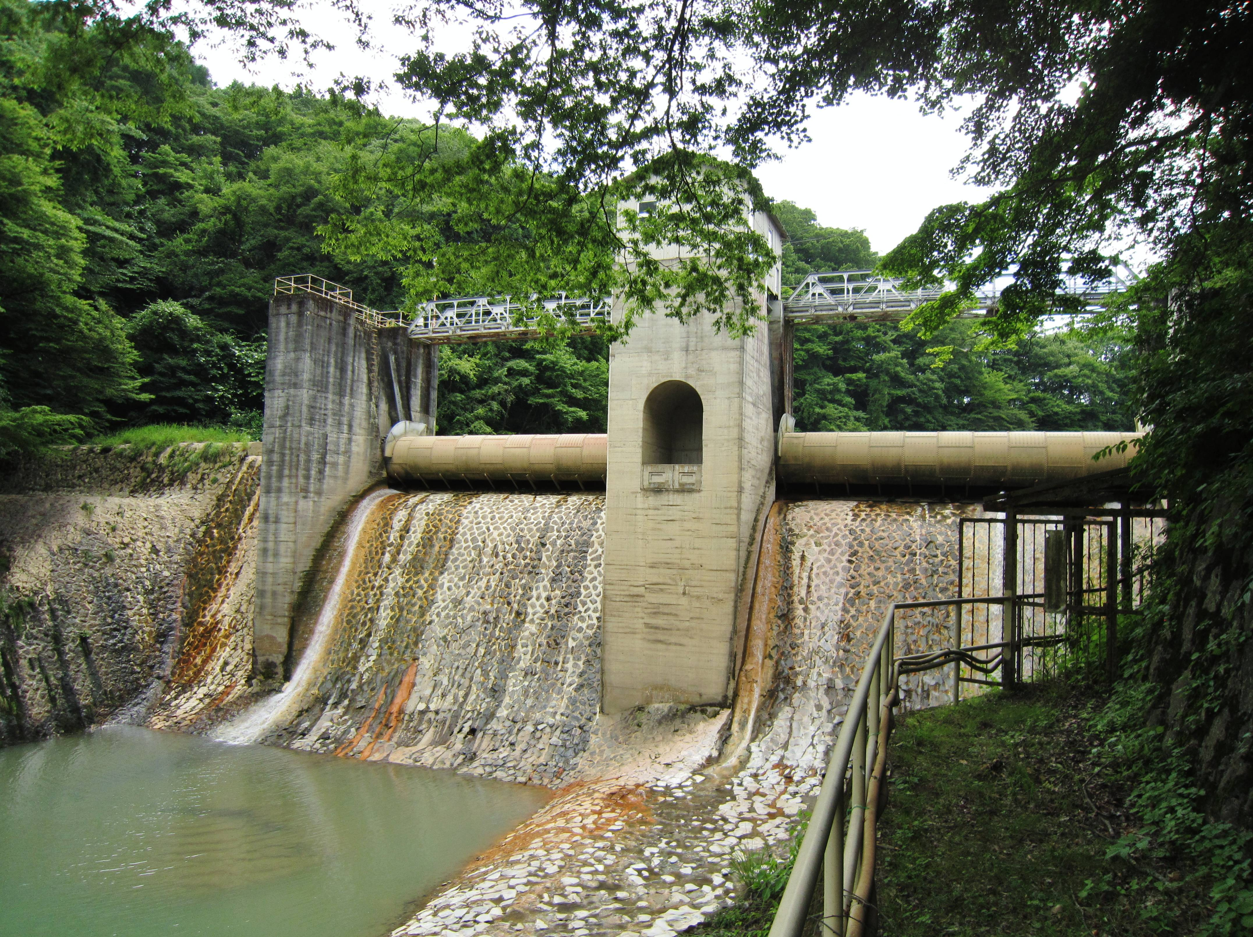 Ōtsu Dam.